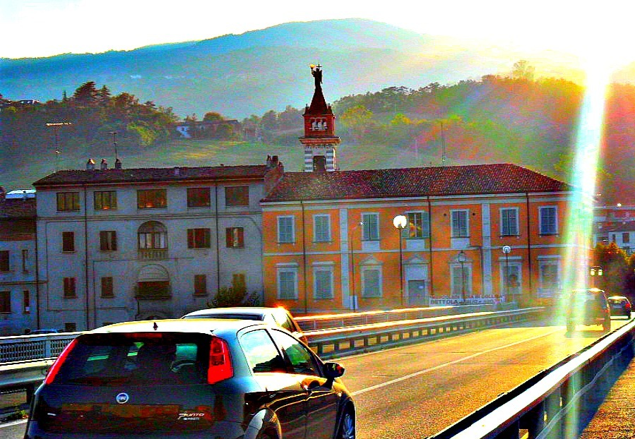 San Giovanni district on the left bank of Nure river, in Bettola.